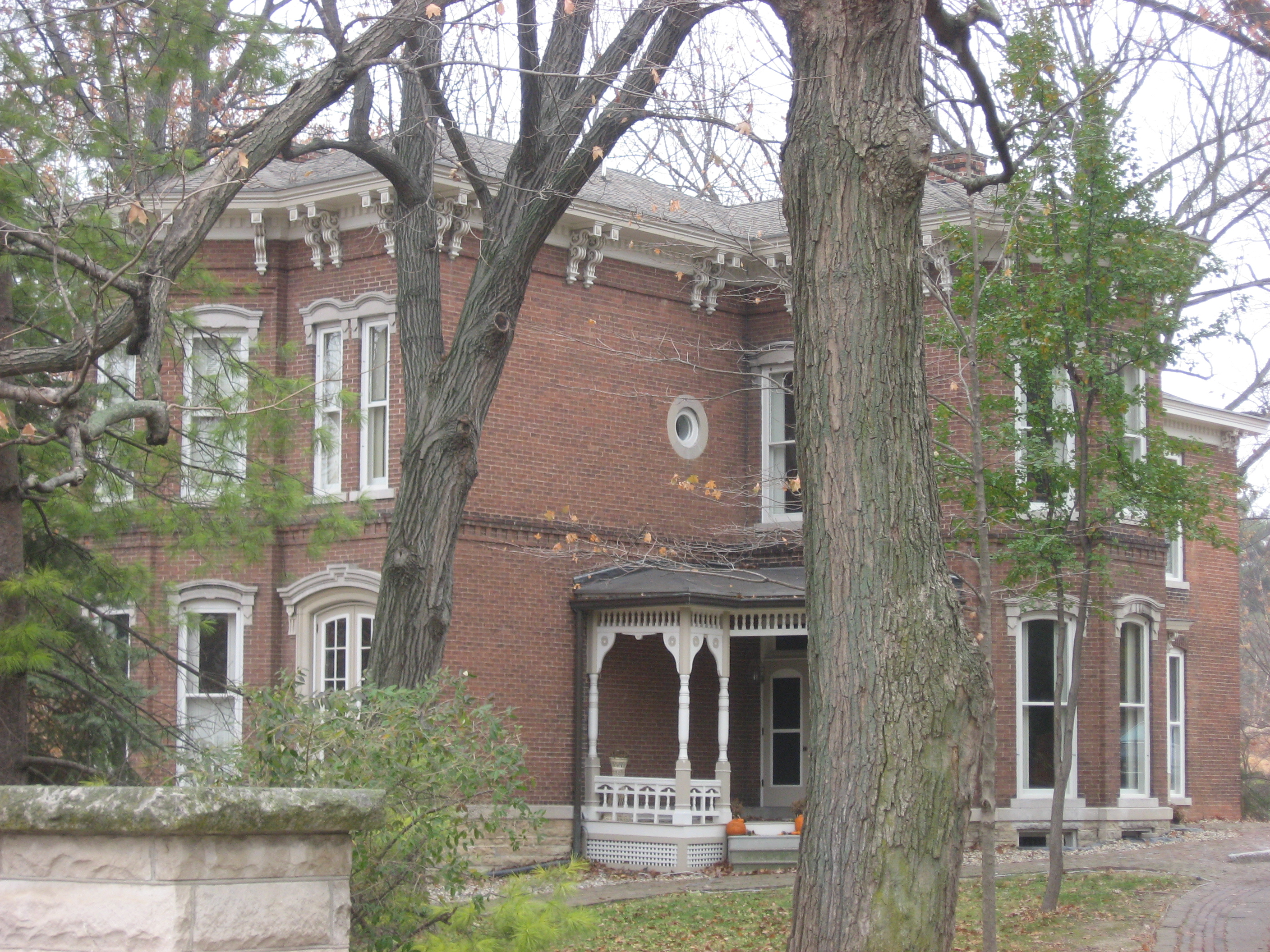 Front of the Waldron-Beck House, located at 829 N. Twenty-first Street in Lafayette, Indiana, United States. Built in 1877, it is listed on the National Register of Historic Places.